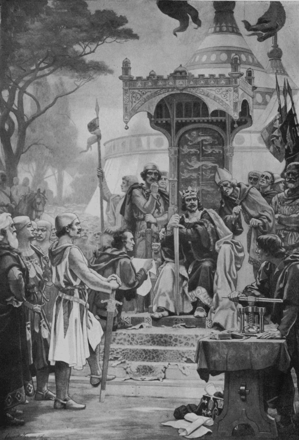 "KING JOHN GRANTING MAGNA CHARTA From the Fresco in the Royal Exchange"